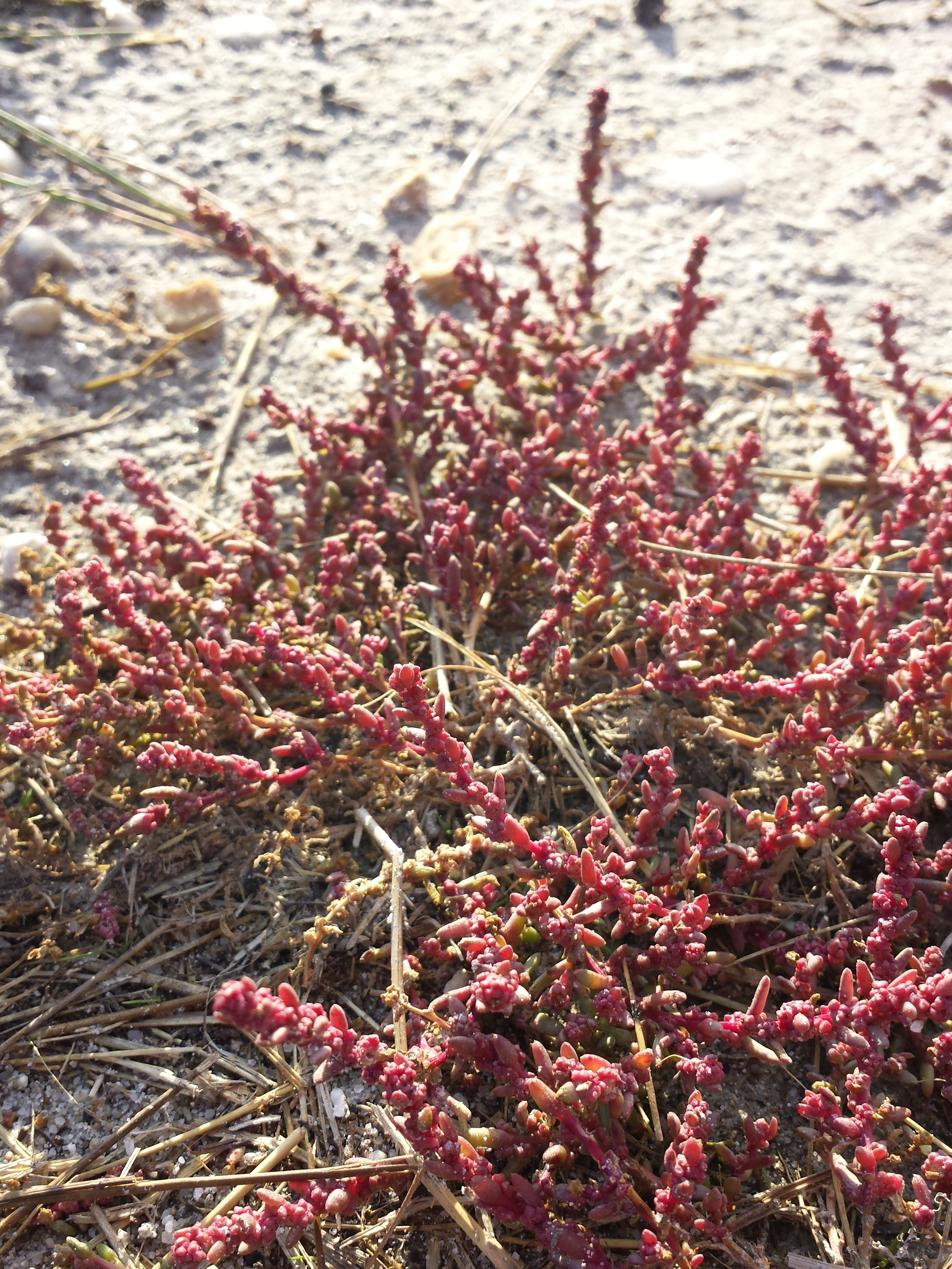 Habitus Taxon: Suaeda prostrata (sensu Fischer et al. EfÖLS 2008; det M. A. Fischer 2013-10-12) Location: small salt lake near Podersdorf, district Neusiedl am See, Burgenland, Austria - ca. 120 m a.s.l. Habitat: dried-out small salt lake